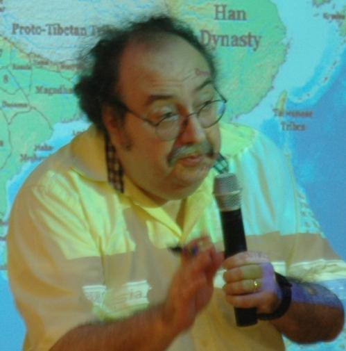 Prof. Riotto during a lecture in Seoul